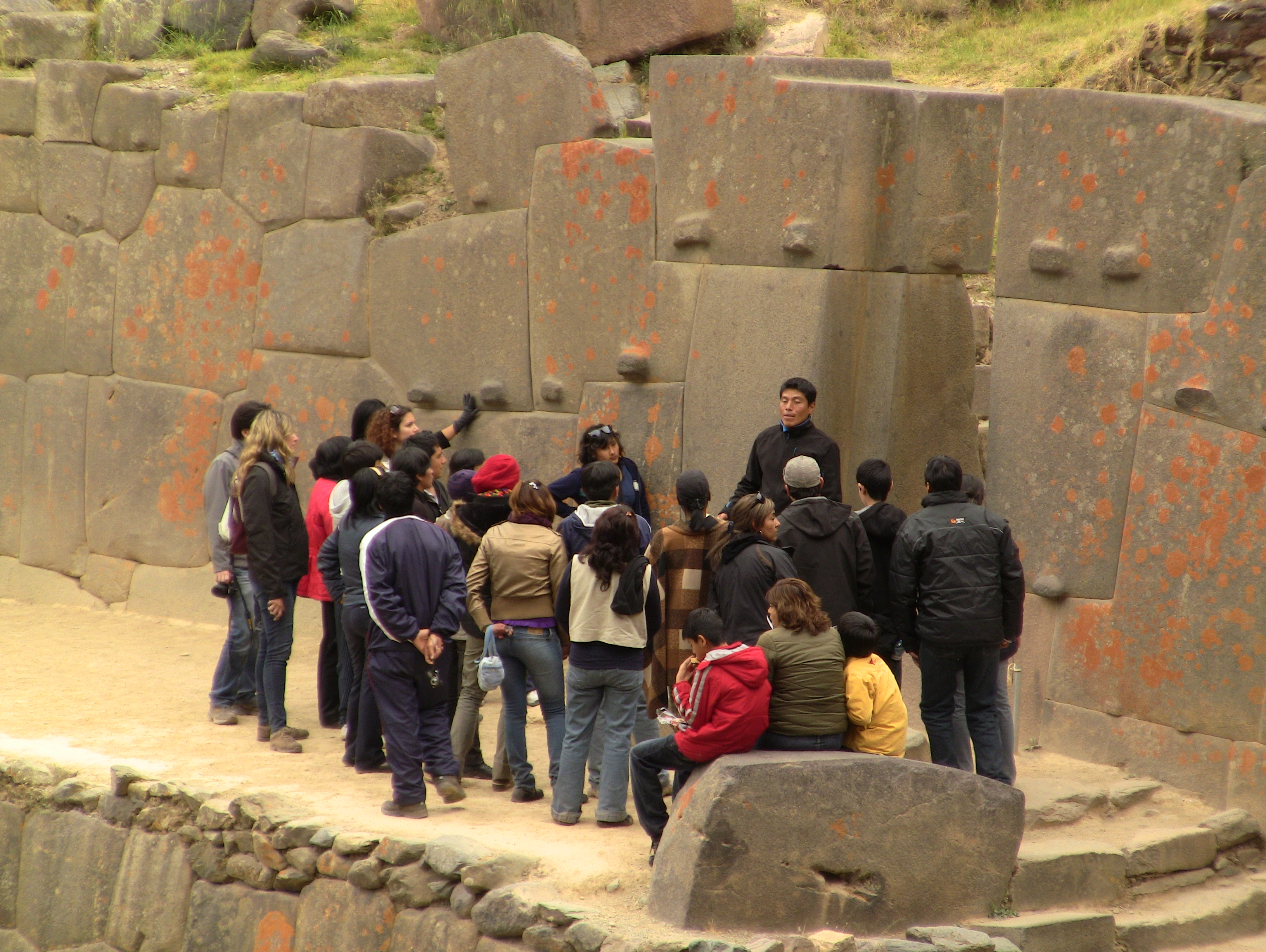 Ollantaytambo is a town and an Inca archaeological site in southern Peru.